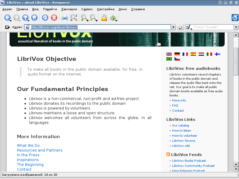 Konqueror 3.5.9 at LibriVox’ about page, on KDE 3.5.x in Debian lenny/sid, Russian locale.